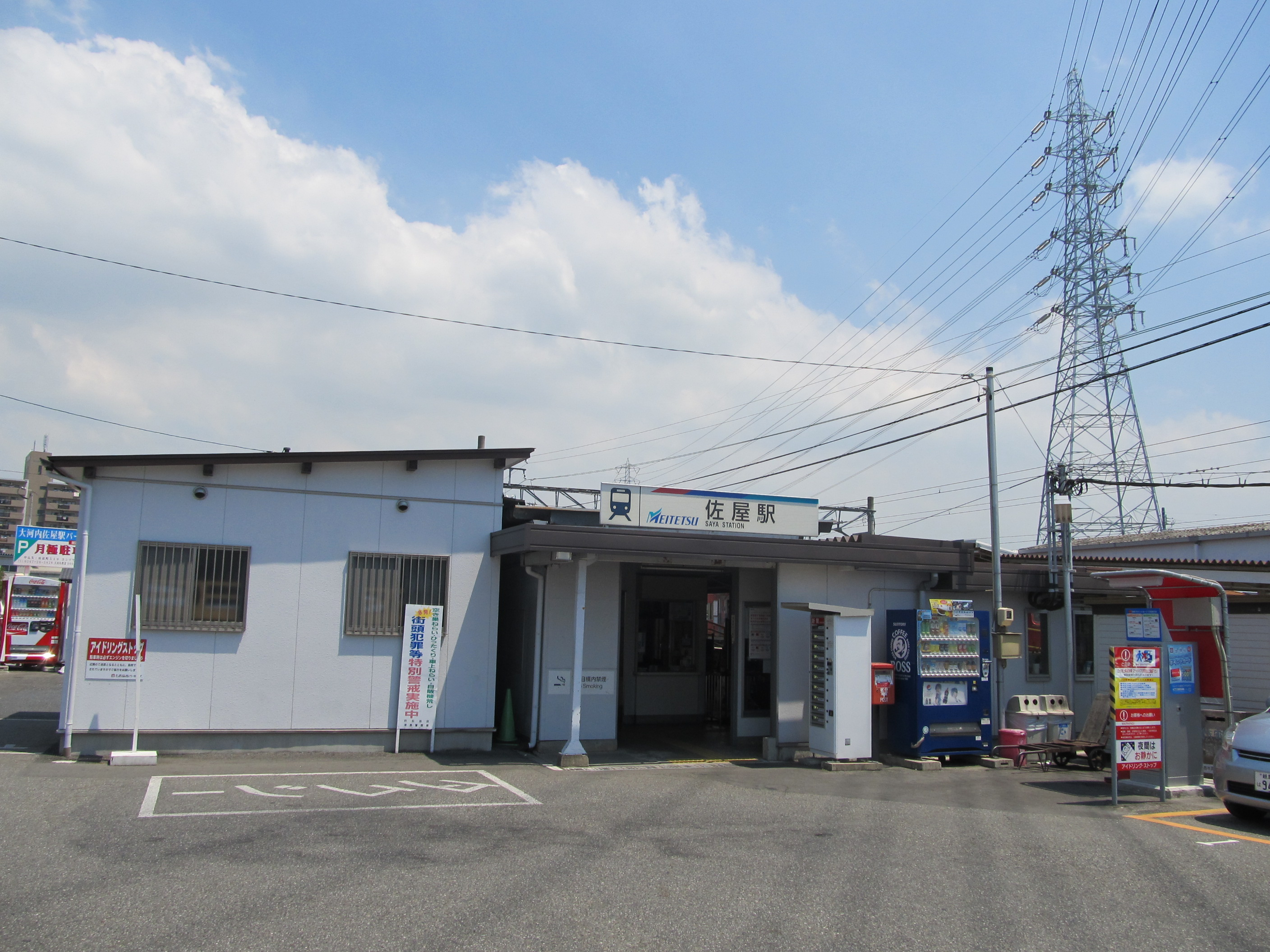 Nagoya Railroad Bisai Line Saya Station Building